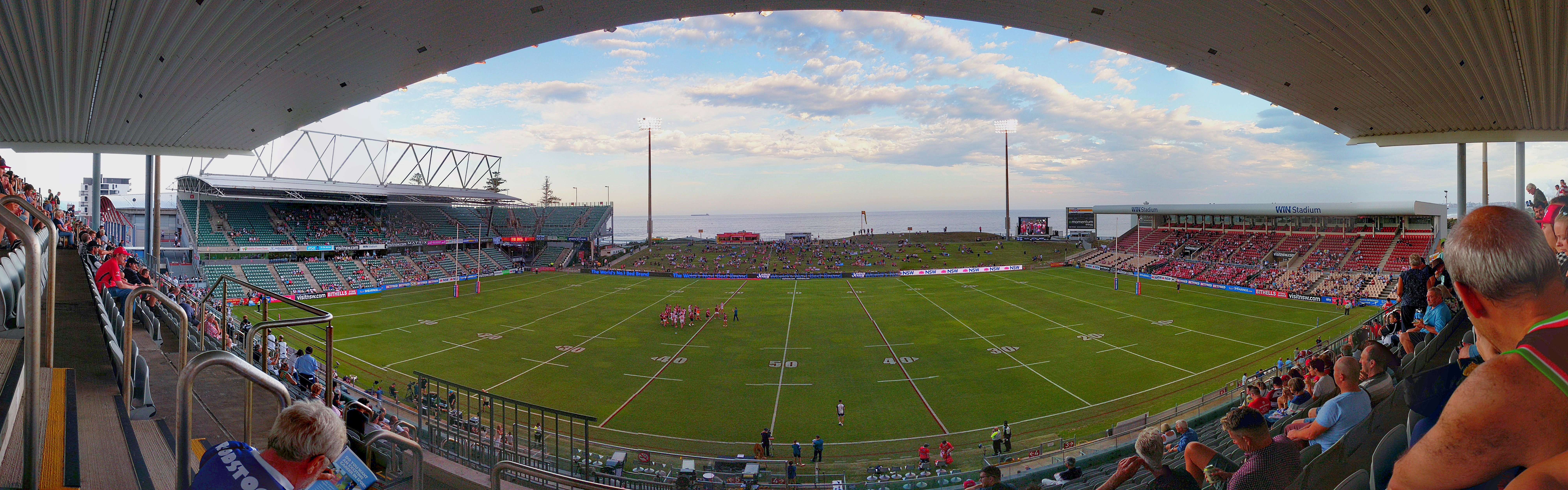 A panorama of WIN Stadium, taken from the top tier of the western grandstand, before kick-off between the Wigan Warriors and Hull FC in the round 2 match of the 2018 Betfred Super League, the first Super League game held outside of Europe.